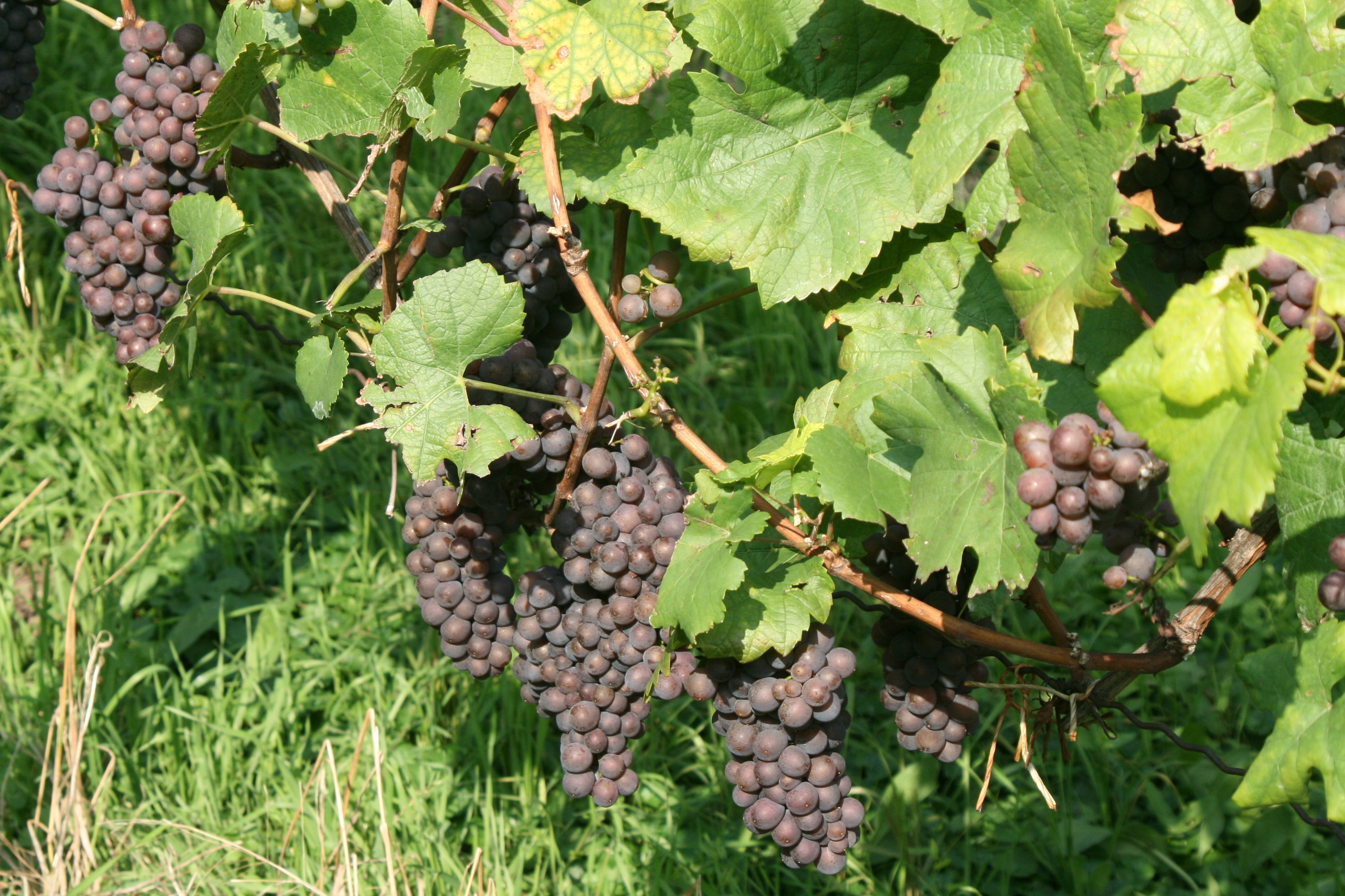 Grapes and leaves of the grape variety Pinot gris, photographed at the viticulture trail on the Schemelsberg hill in Weinsberg